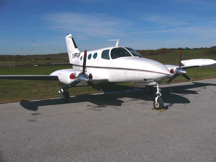 A 1967 model Cessna 402 at CYND Gatineau Airport Quebec